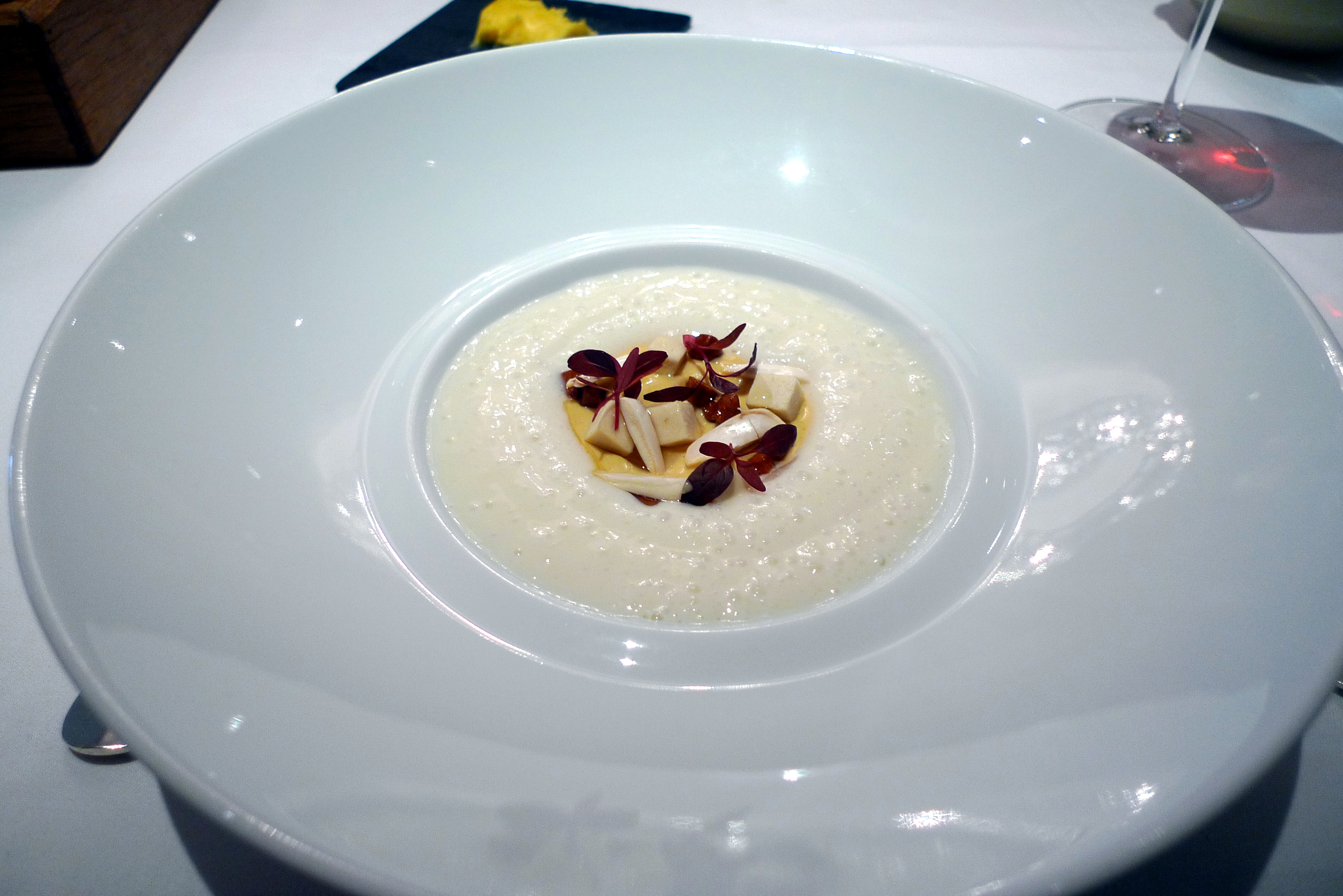 The vegetarian starter, a warm royale of toasted rice & almond (in the centre) with ice-cold cauliflower velouté. Not much to look at, but very tasty. At Hibiscus, Maddox Street.